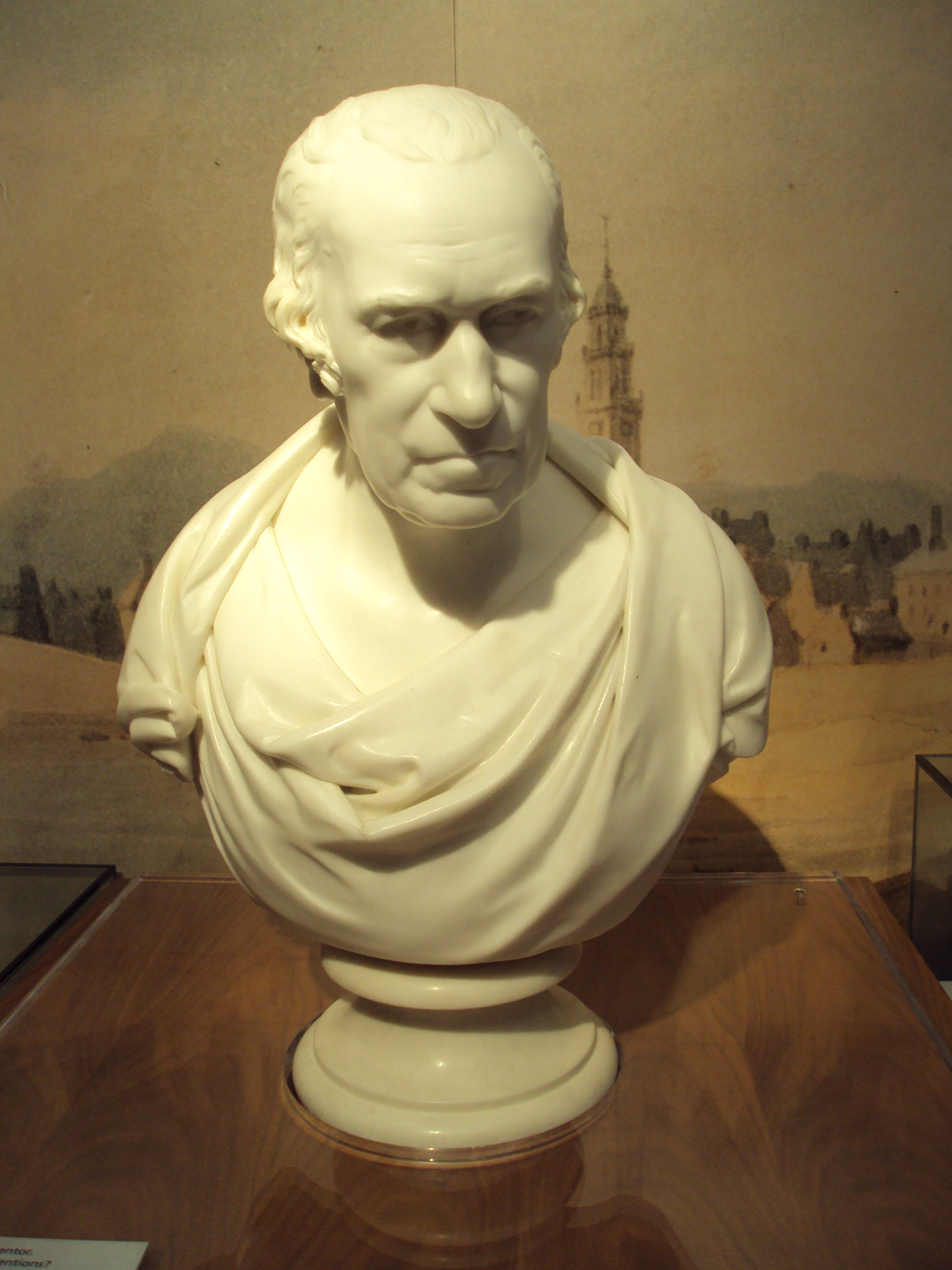 Marble bust of James Watt at the Kelvingrove Art Gallery & Museum, Glasgow, Scotland. Sculpted by Francis Chantrey in 1816.